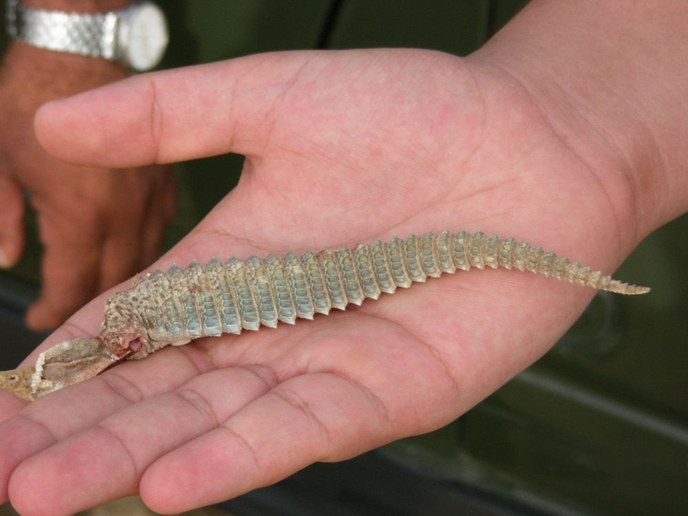 Tail of Spiny-tailed Lizard (Uromastyx hardwickii). Prey of Laggar Falcon (Falco jugger) (3 pix in Falco jugger). Image taken in Thar desert, Rajasthan, India on 05 Jun 06.